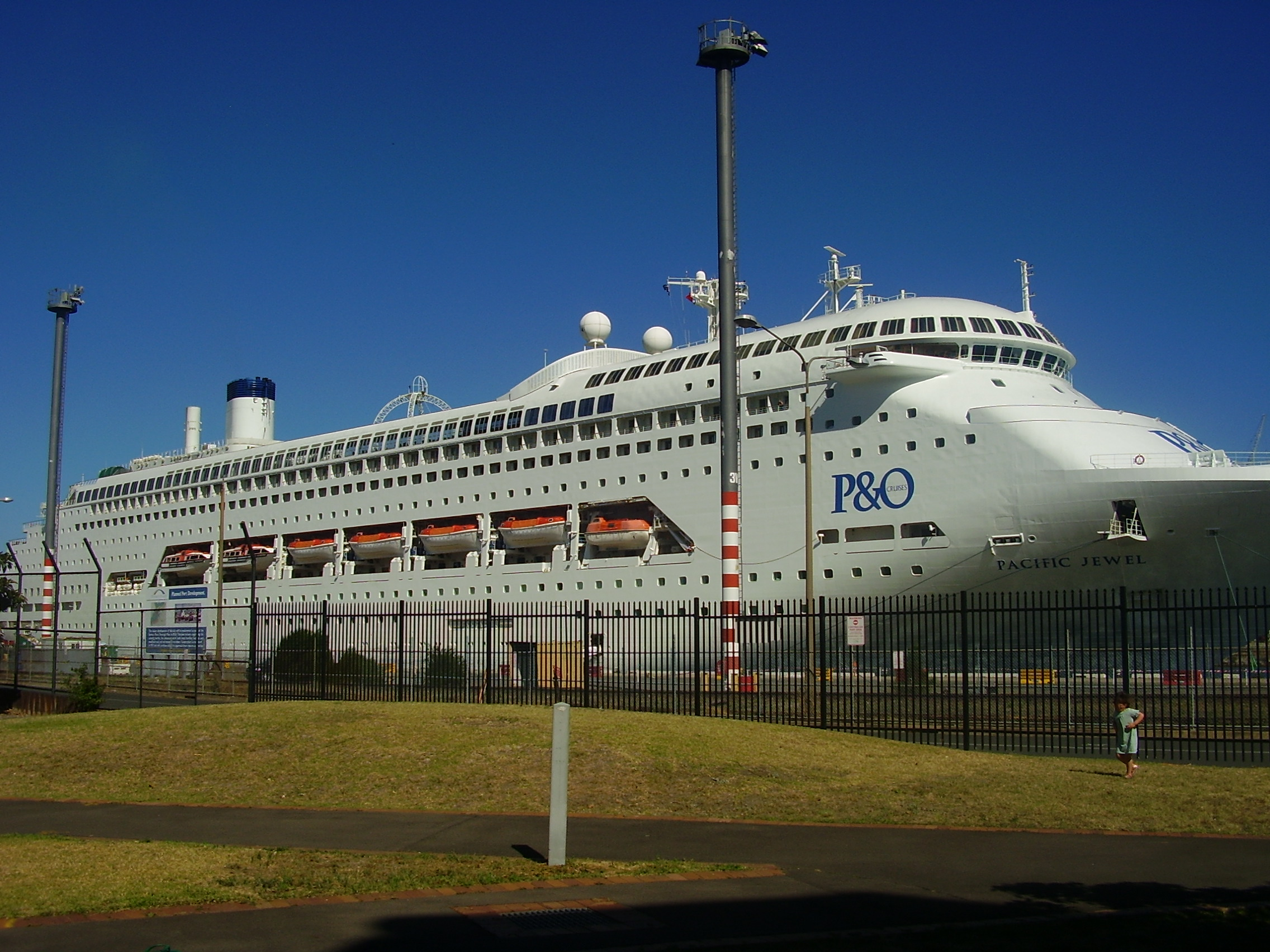 The Pacific Jewel docked at White Bay Wharves, a day before it's official launch.